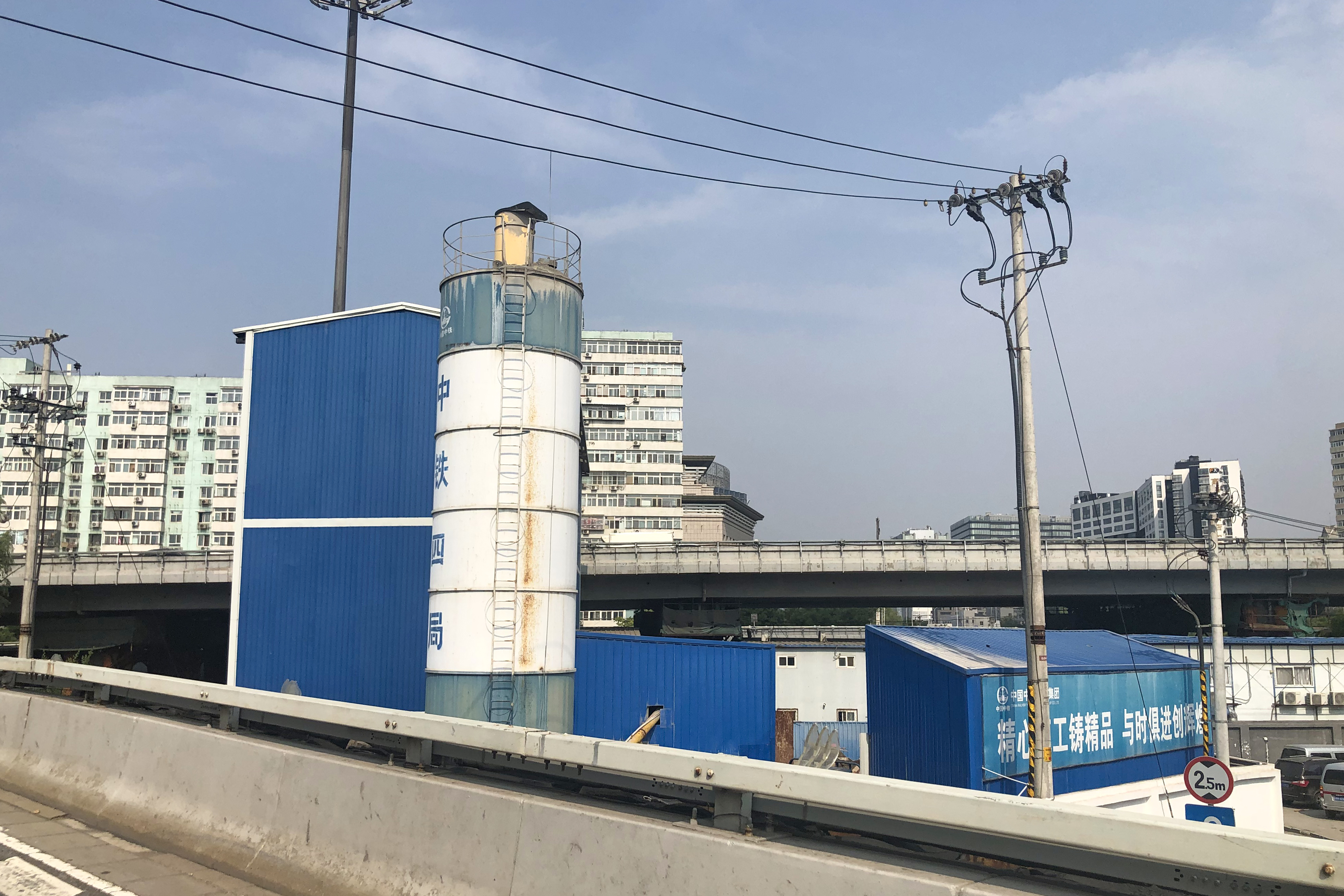 At least two exits for this station...